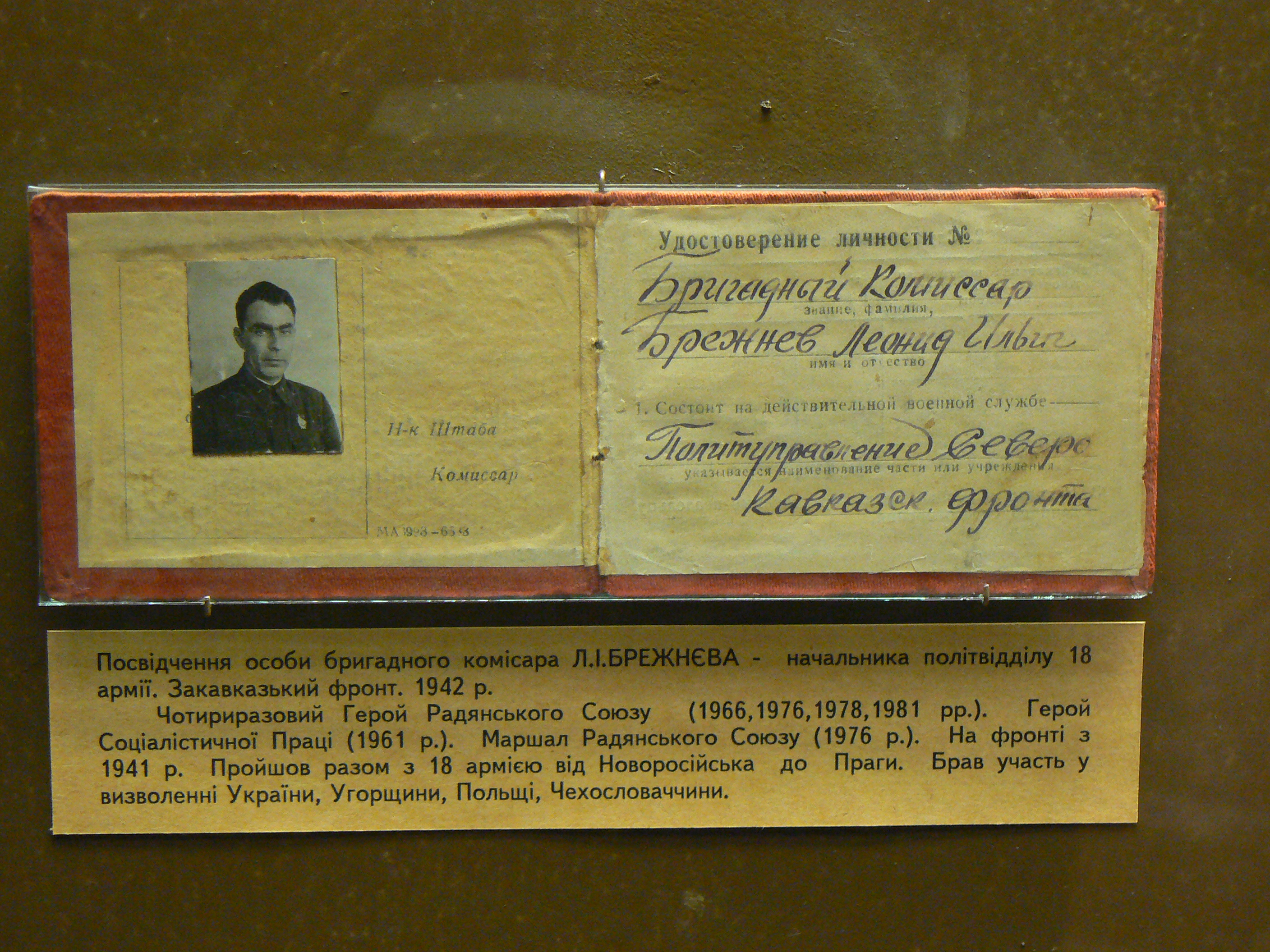 Leonid Brezhnev's ID card with his photo from 1941. National Museum of the History of Ukraine in the Second World War.